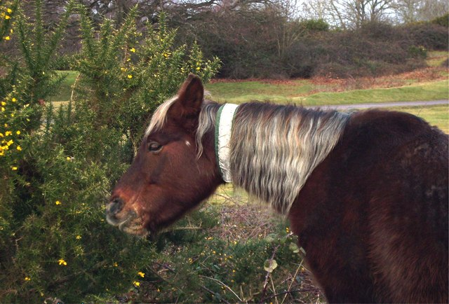 New Forest pony This New Forest pony is nibbling off the 'soft' tips of gorse as grass is in short supply. Note the reflective collar fitted in an attempt to cut the numbers of pony fatalities on the unfenced open Forest roads.